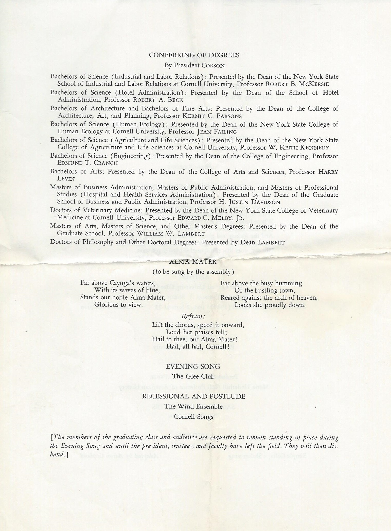 The back side of the single-sheet program for Cornell University's commencement ceremony of May 28, 1976.